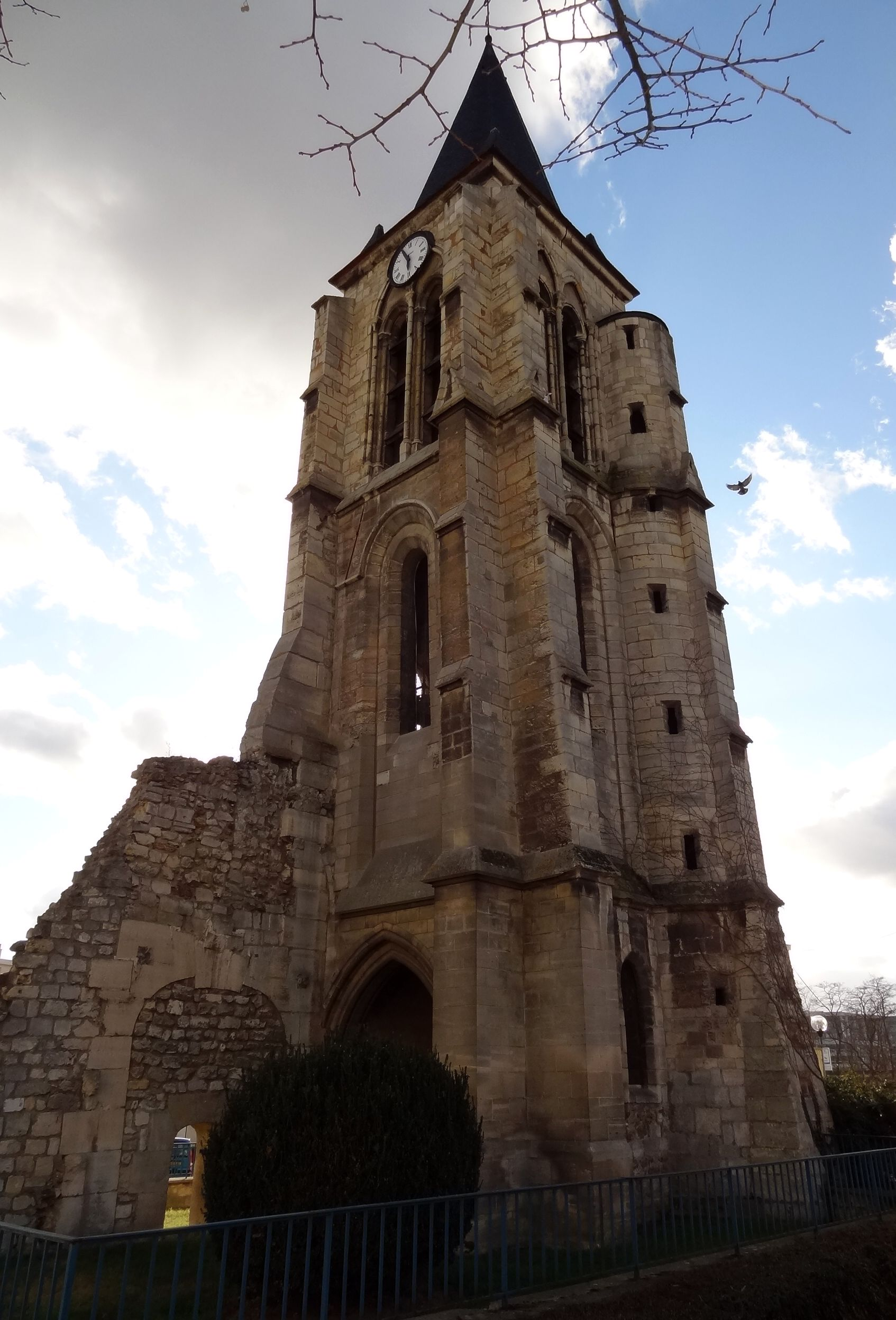 Bell tower of the St Marie Madeleine church, Massy, Essonne, France .